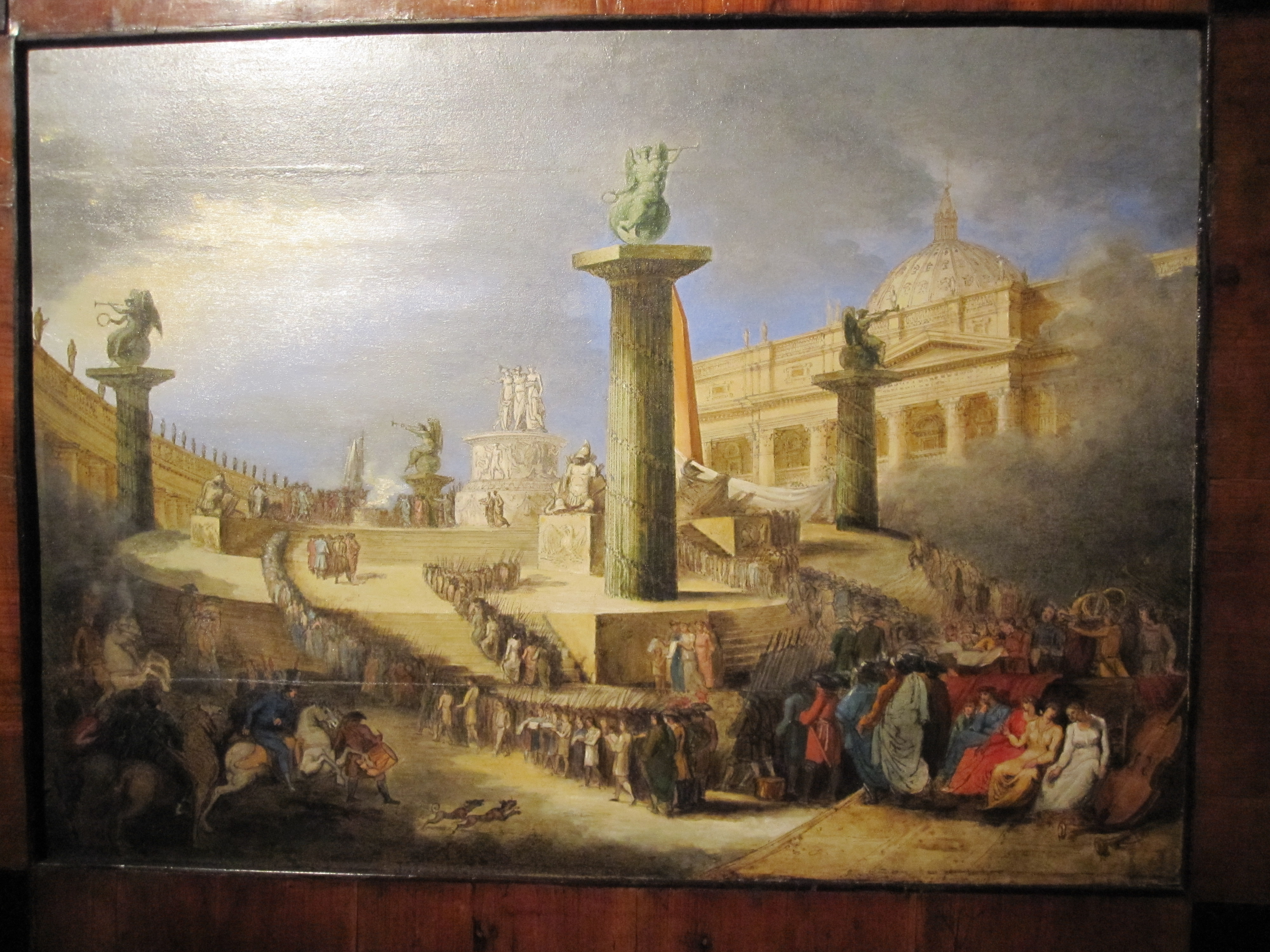 Rome, Saint-Pierre place, party of the federation in march 20, 1798